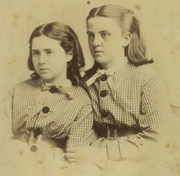 Bess and Lena, daughters of Edward and Amanda (Folger) Brackett.